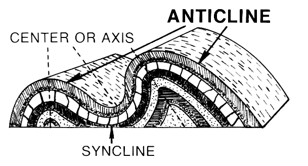 line art drawing of an anticline.